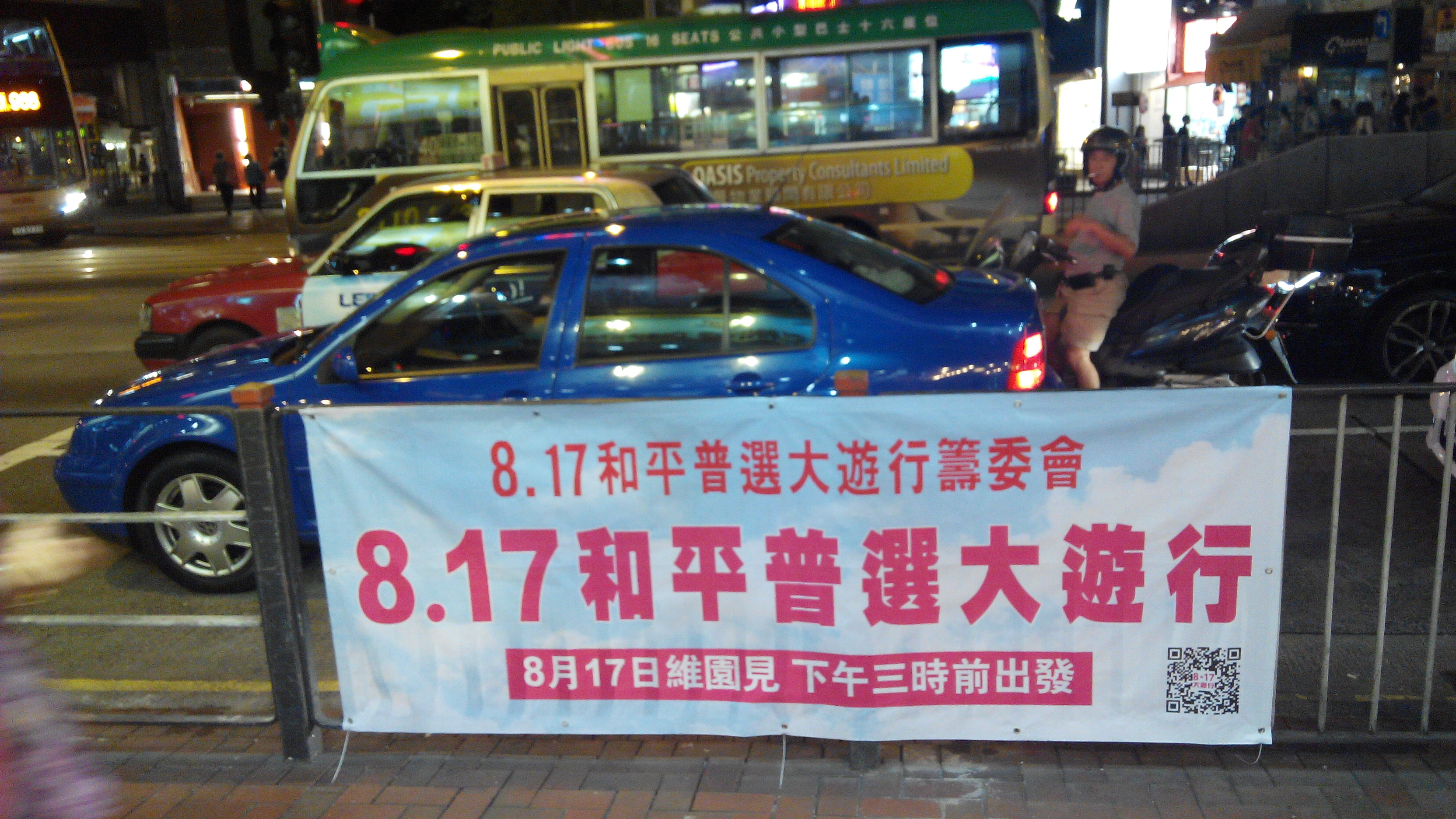 8.17 保普選反佔中大遊行, banner in Causeway Road, Hong Kong